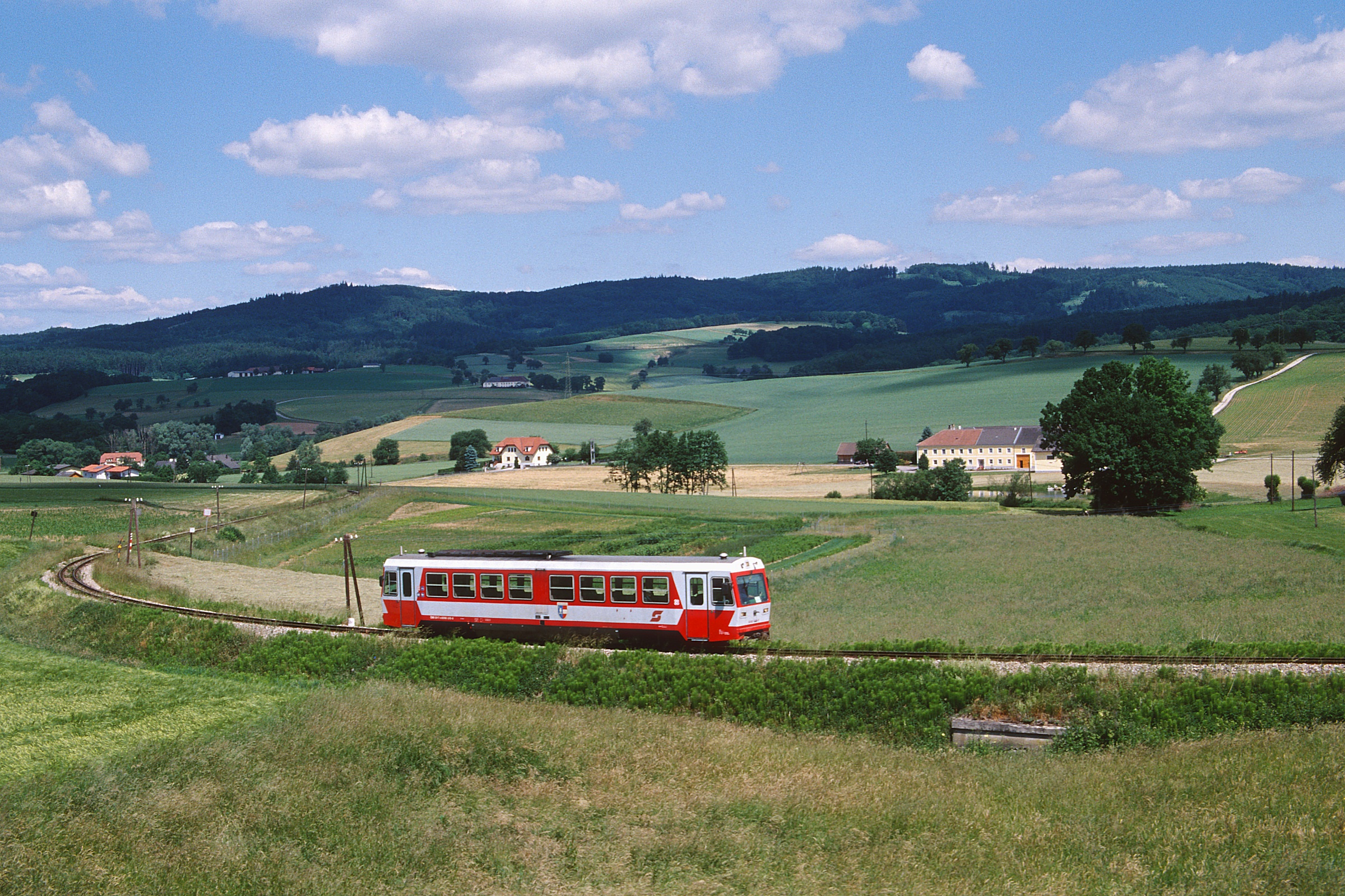 ÖBB 5090 railcar near St. Leonhard on the now closed Mank -Ruprechtshofen section of the Mariazellerbahn branchline.